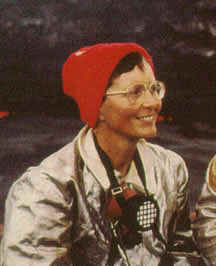 Katia and Maurice Krafft